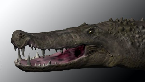 Kaprosuchus